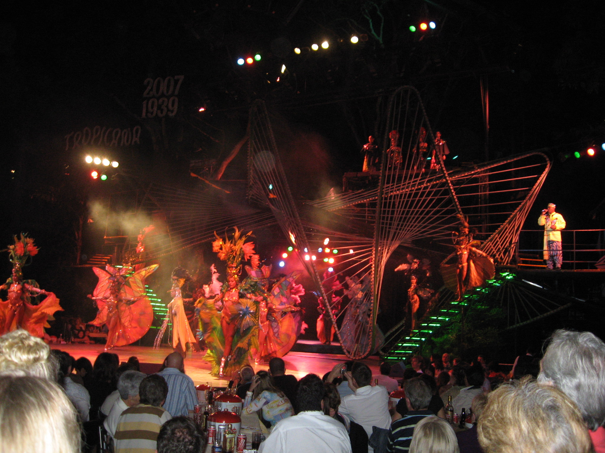 Tropicana, Havana, Cuba